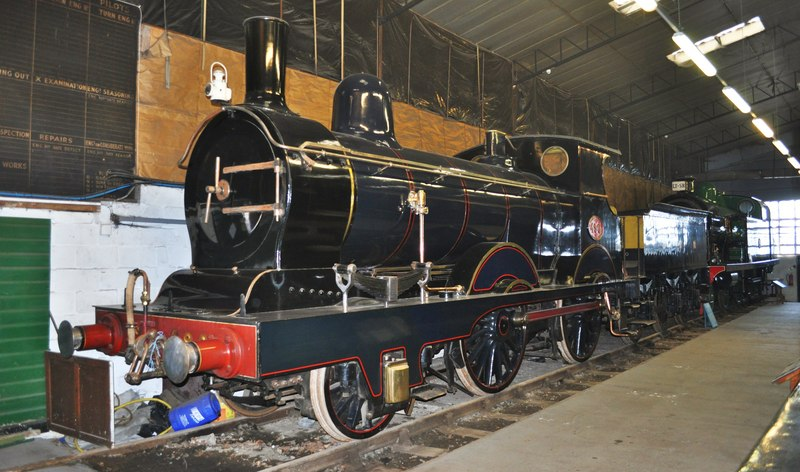 Great Eastern Railway T26 (or E4) No.490 (BR 62785), near to Bressingham, Norfolk, Great Britain. Class T26 2-4-0 Two cylinders 17.5 inch diameter; coupled wheel diameter 5 ft 4 inchs; grate area 18 square foot. Working pressure 160 lb, tractive effort 14,700 lb, weight 40.3 tons, length 48 ft 6 inches. Designed by James Holden (locomotive superintendent at the GER July 1885-1907)and built at Stratford works in January 1895. It was designed for cross-country excursion and slow main-line duties. Withdrawn in 1959 and renovated at Stratford Works in GER blue for a life in preservation. The locomotive is on loan from the national railway museum. They were common in the area, in 1922 the allocation was Norwich (23), Cambridge (14), King's Lynn (14), Bury St. Edmunds (10), Stratford (8), March (5), Peterborough (4), Ipswich (3), Yarmouth Vauxhall (3), Dereham (3), Southend (2), Wells (2), Bishop's Stortford (2), Wickford (1), Colchester (1), Sudbury (1), Lowestoft (1), Saffron Walden (1), Huntingdon (1), and Wisbech (1). For more information see Link